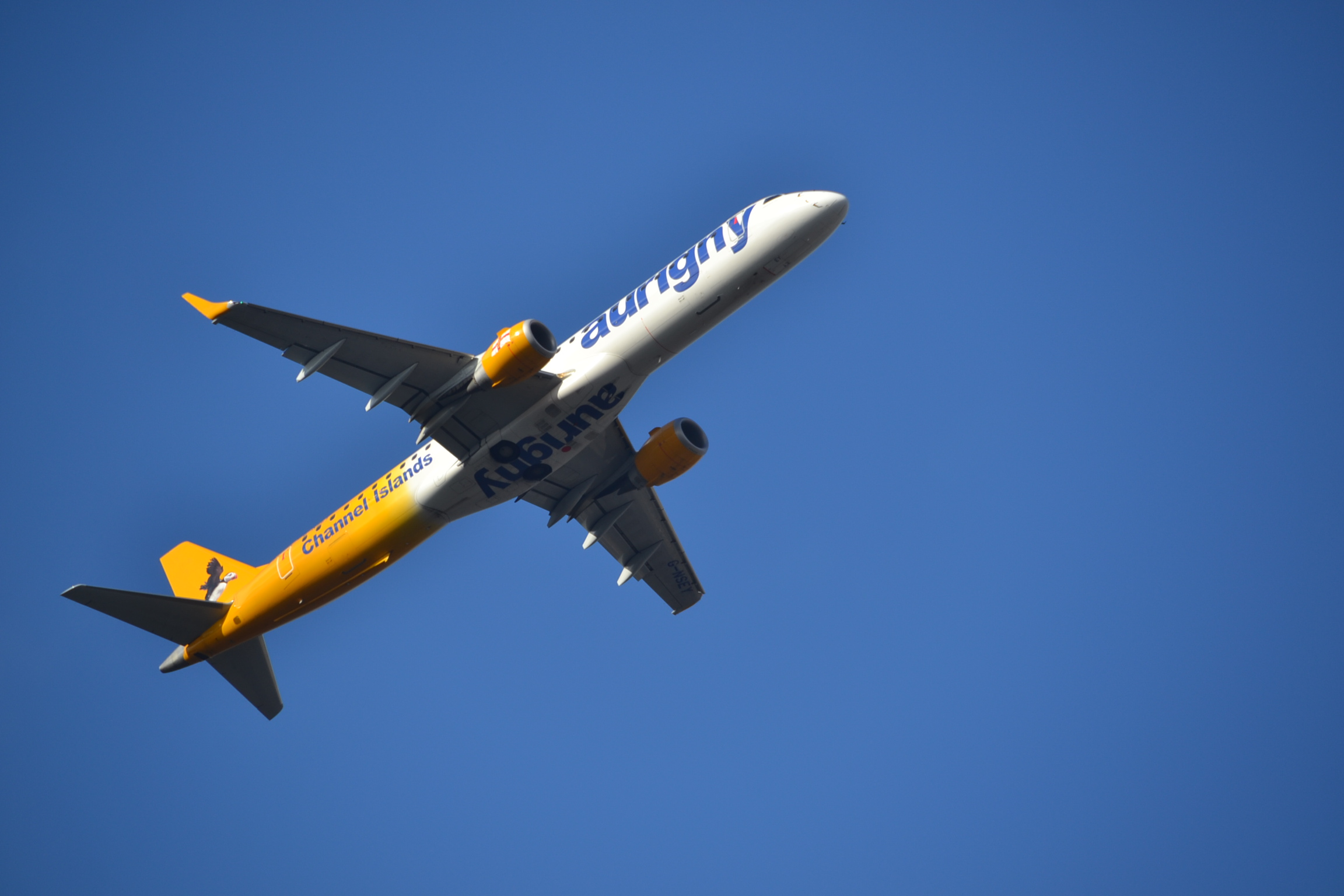 Embraer Emb-195 of Aurigny Air Services departing rwy.08 at London Gatwick-LGW,04/02/15.